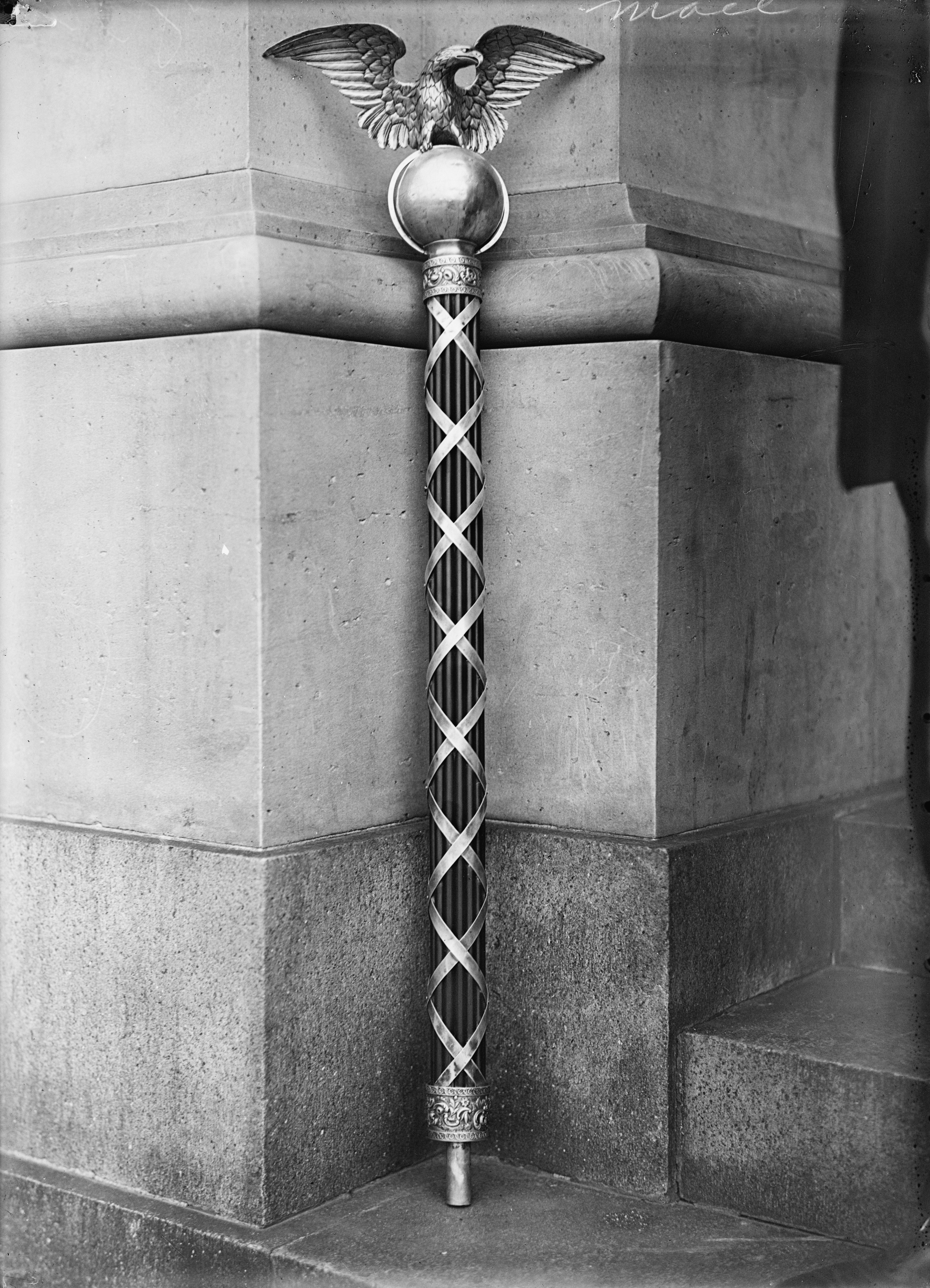 Title: MACE OF HOUSE OF REPRESENTATIVES Abstract/medium: 1 negative : glass ; 5 x 7 in. or smaller